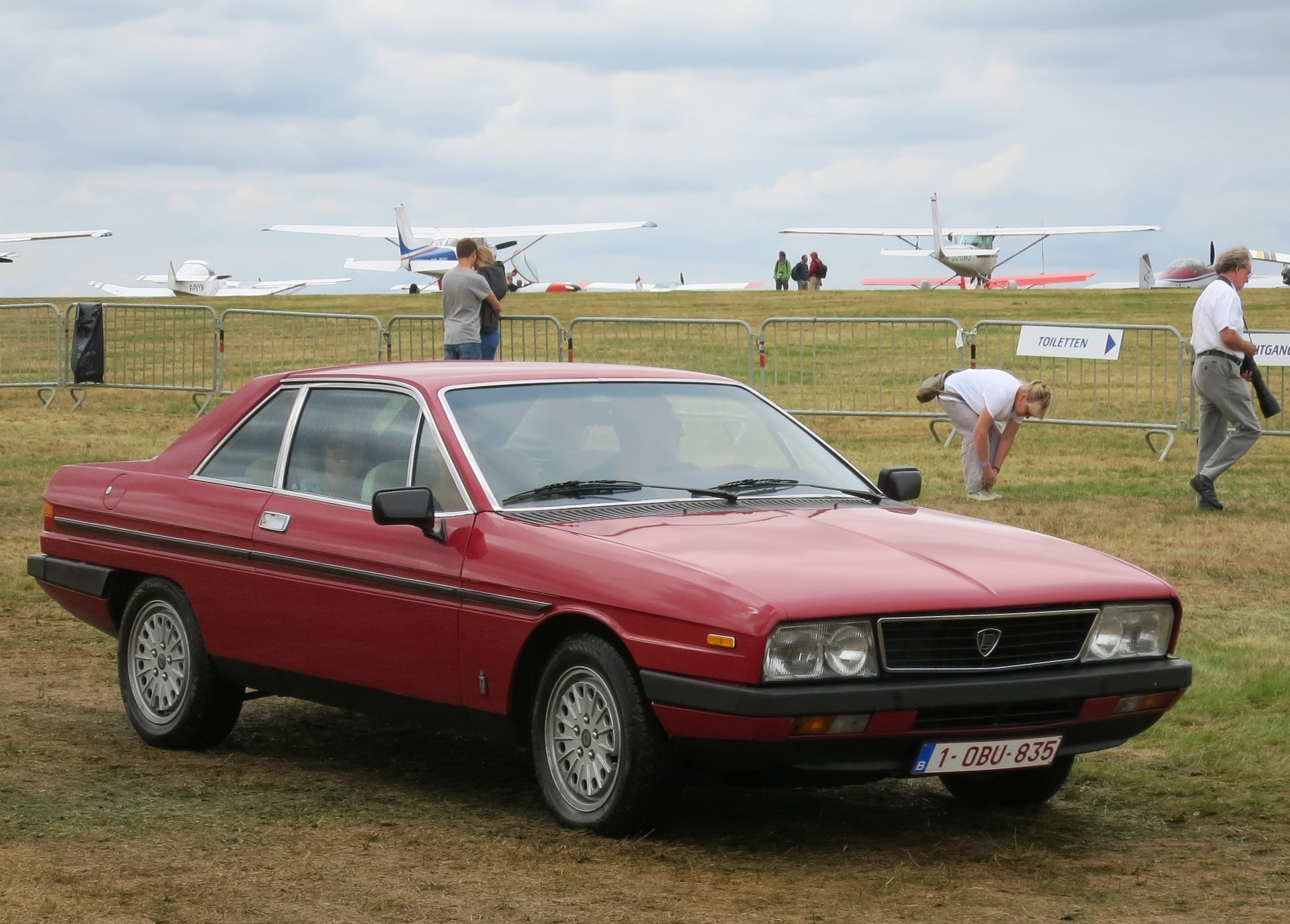 Lancia Gamma Coupé in Belgium